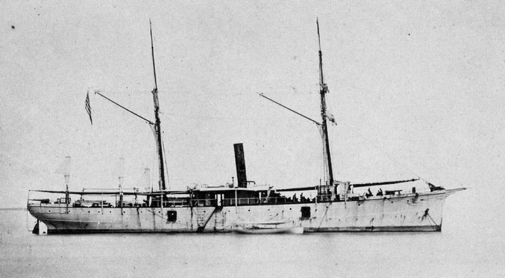 Scanned image of the USS Hendrick Hudson. Obtained from the U.S. Naval Historical Center.